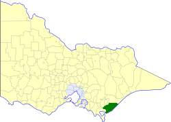 Location of the Shire of Alberton within Victoria.